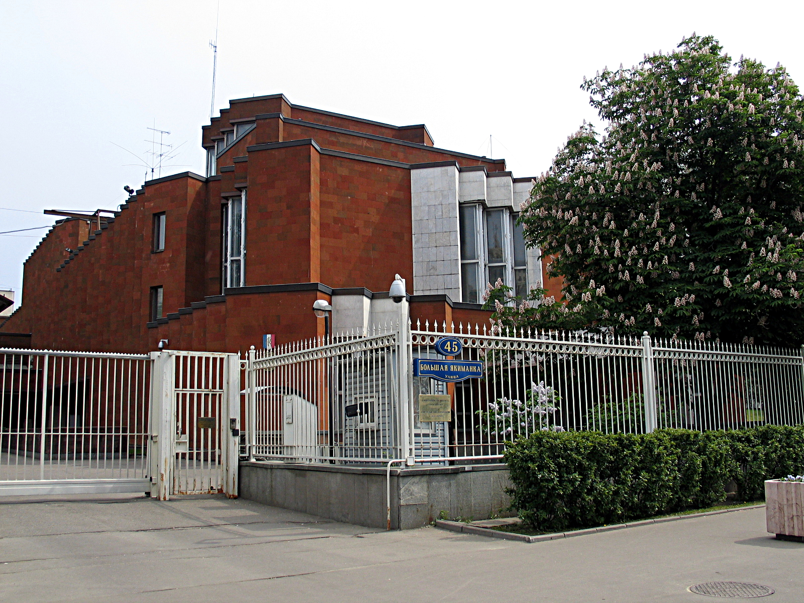 Embassy of France in Moscow (Bolshaya Yakimanka Street, 45)